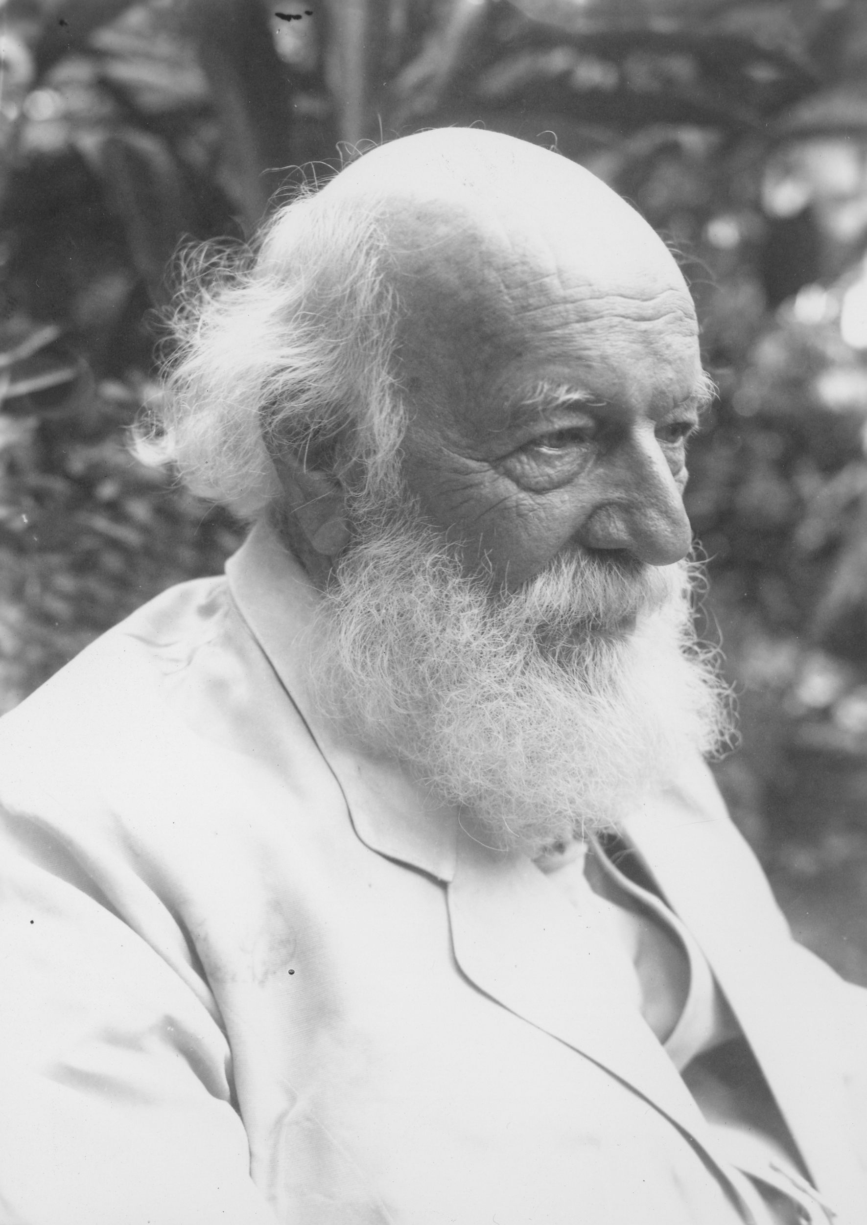 Director of Bishop Museum, Honolulu, 1892-1918